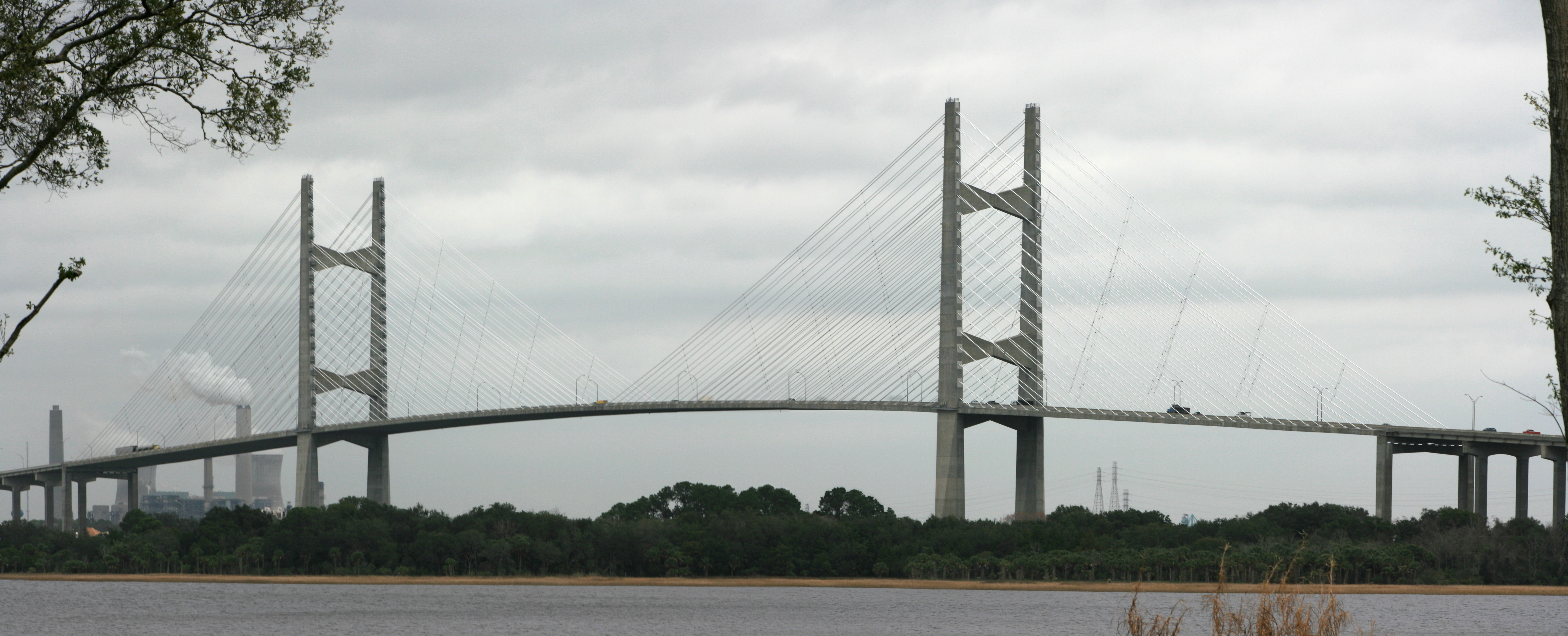 Panorama of the Dames Point bridge in Jacksonville, Florida, USA.